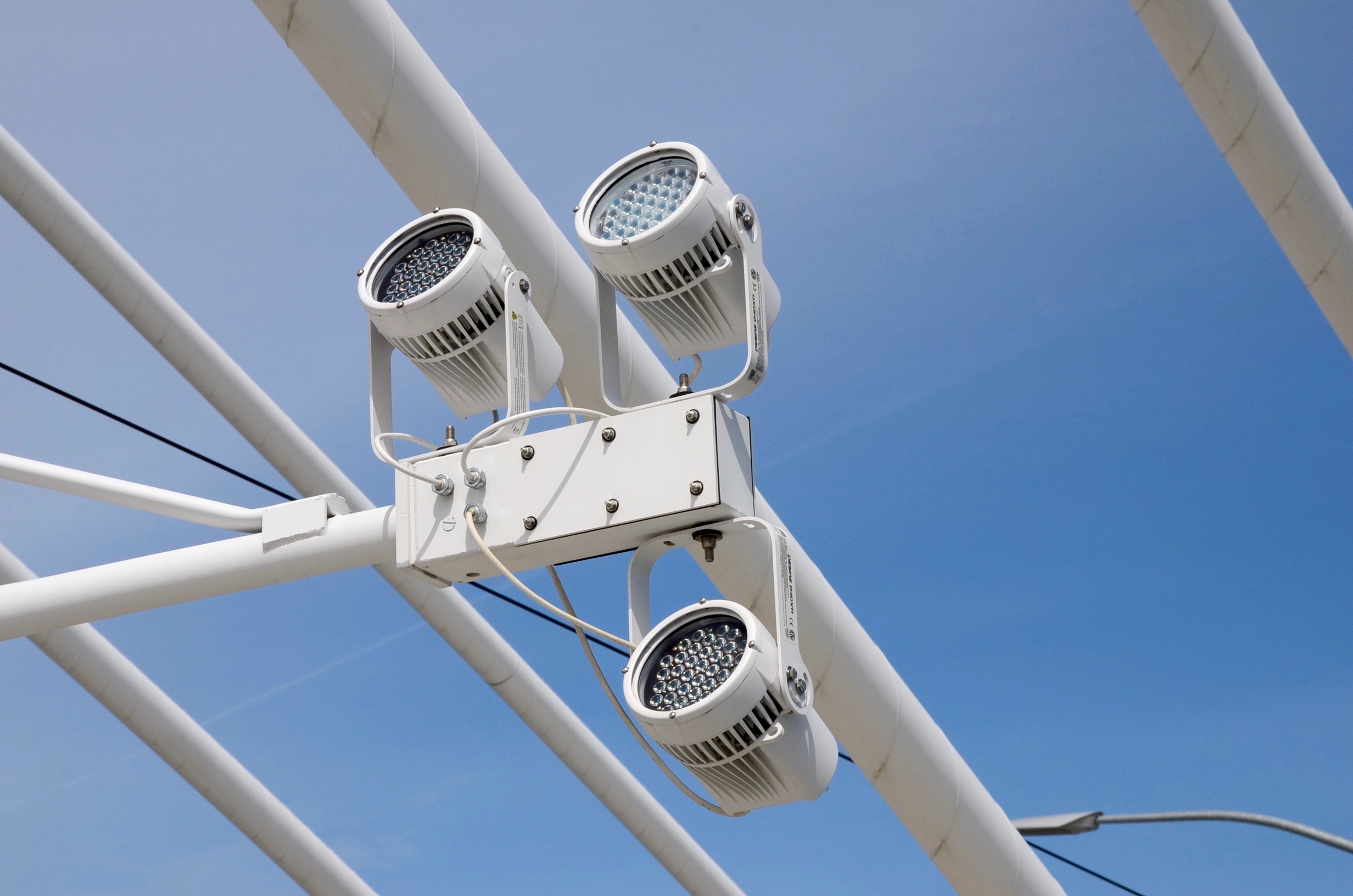 Three of the 178 LED lighting modules on the Tilikum Crossing bridge, in Portland, Oregon, which illuminate the bridge's cables and towers at night. Each of the 178 modules includes around 36 LEDs. (TriMet routinely describes the lighting system as one in which "178 LED lights" illuminate the bridge, which is somewhat misleading, as the number of LEDs is actually more than 6,000, and 178 is merely the number of lighting pods, or modules, and the use of "lights" to refer to these is ambiguous. Some mainstream media sources have written "178 LEDs" [without "lights"], which is definitely inaccurate.)